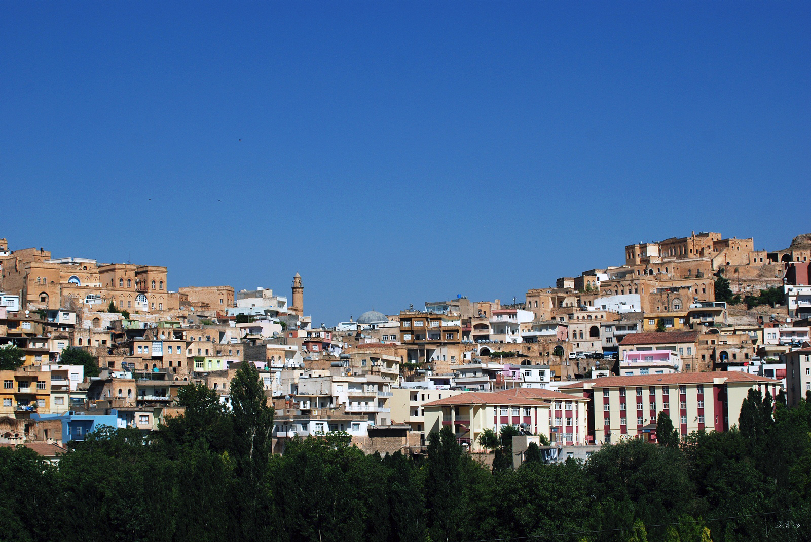 Savur, a district in Mardin Province Kurdî: Bajarê Stewrê, 2011